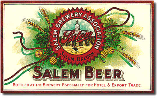 Salem Brewery Association trademark (#860), 1904.